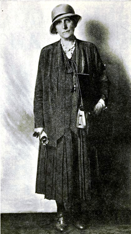 A Photo of Grace Raymond Hebard, a historian, suffragist, pioneering scholar, prolific writer, political economist and noted University of Wyoming educator. Hebard's standing as a historian in part rose from her years trekking Wyoming's high plains and mountains seeking first-hand accounts of Wyoming's early pioneers.